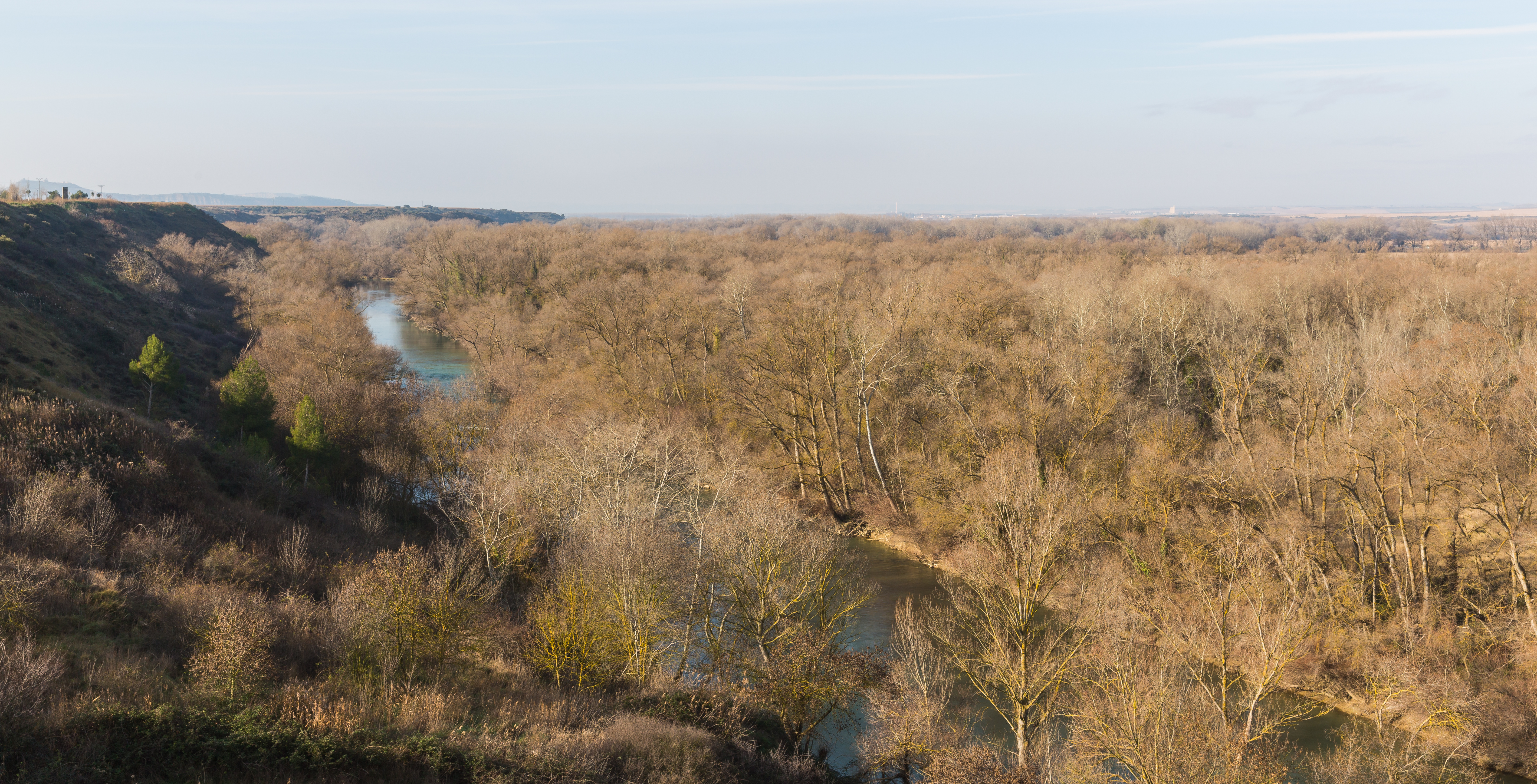 Outlook of Mélida, SCI Tramos Bajos del Aragón y del Arga, Navarre, Spain